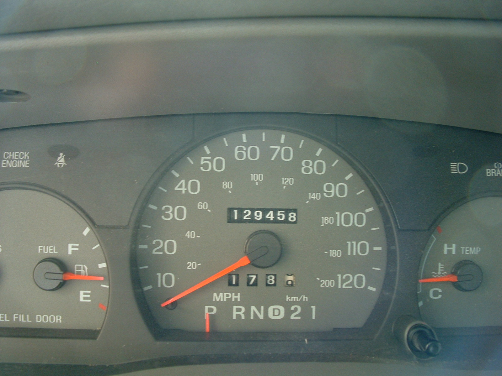 Photograph of instrument panel of a Mercury Grand Marquis. This instrument panel was used from 1995 to 2005. This design was also used in civilian models of the Ford Crown Victoria; the Ford Police Interceptor differed by its use of a 140 mph speedometer.